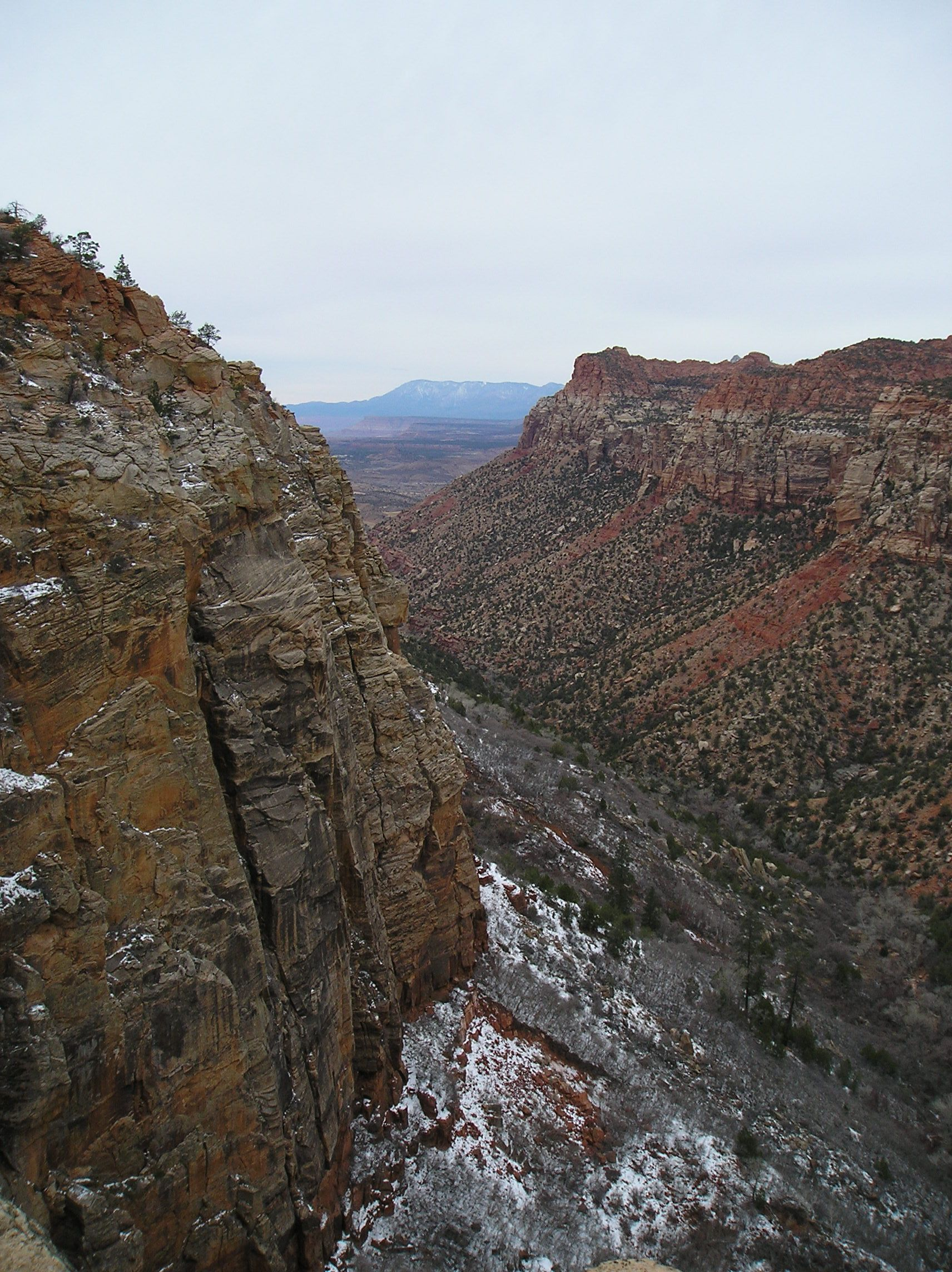 Canaan Mountain Wilderness in southwestern Utah, United States.